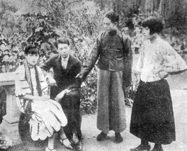 Image from the movie A Flapper's Downfall. Olive Young far left.